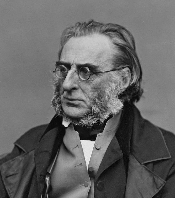 General Sir Charles Napier (1782–1853); Daguerreotype; 10.8 x 8.5 cm; Acquired by Queen Victoria in or before 1852